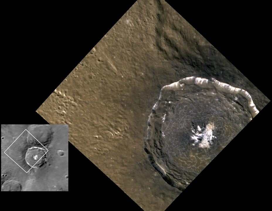 The MESSENGER spacecraft wide angle camera has returned this impressive color view of Degas Crater, with a full resolution of 90 meters per pixel. Named for the impressionist painter, the 52 kilometer diameter crater is also shown in an inset context image from the Mariner 10 flyby mission in the mid 1970s.